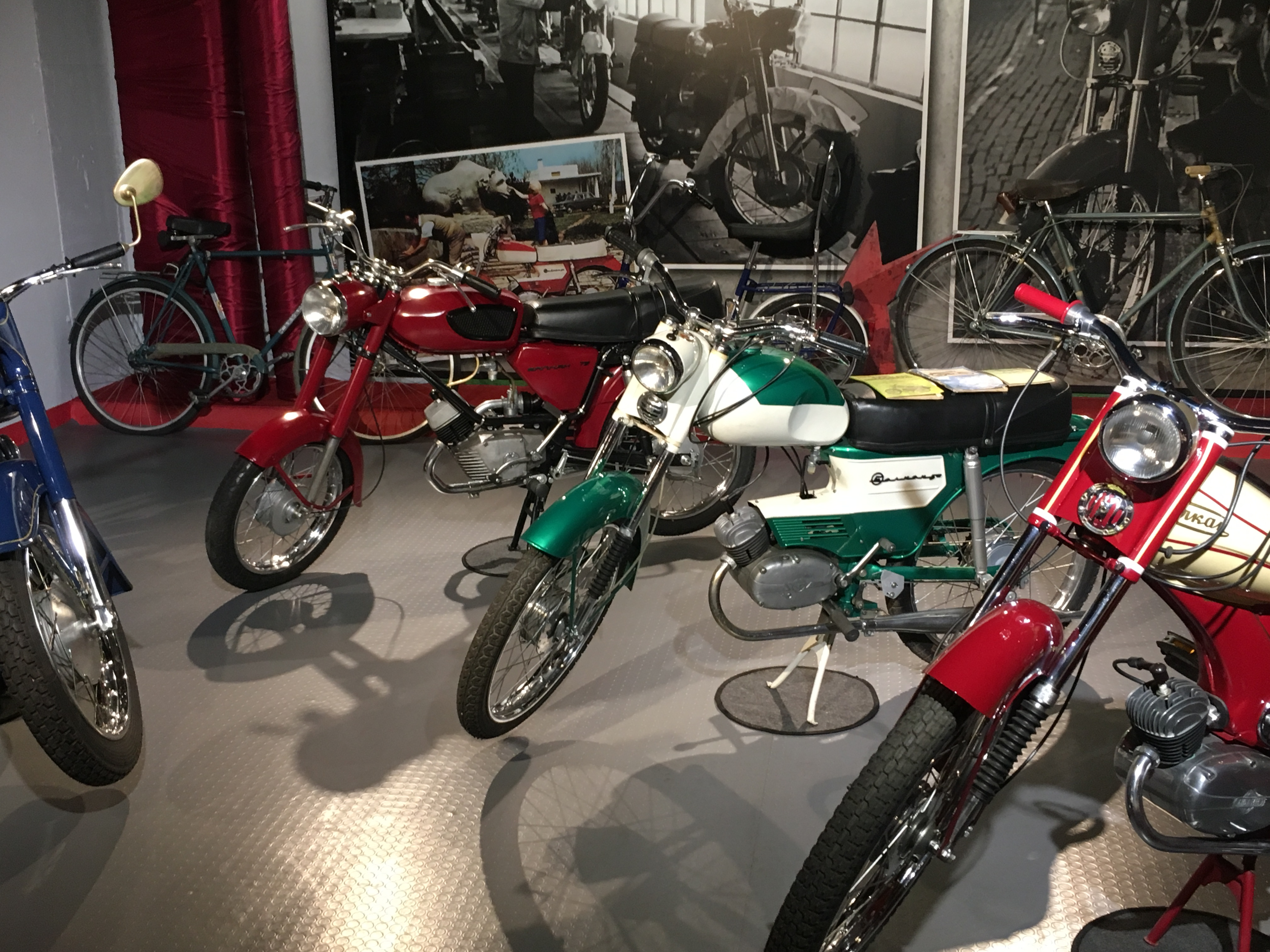 Left to right: Balkan 75 75 cc, Balkan MK50 50 cc , Balkan "Lyulin" 50 cc